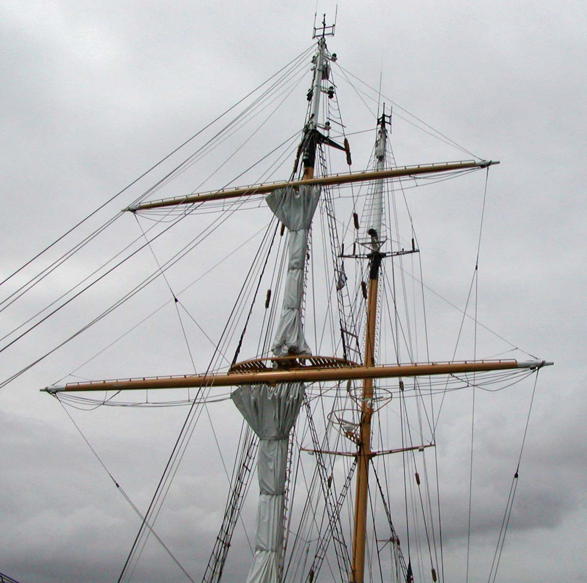 Photo of masts of brigantine Robert C. Seamans in Honolulu harbor